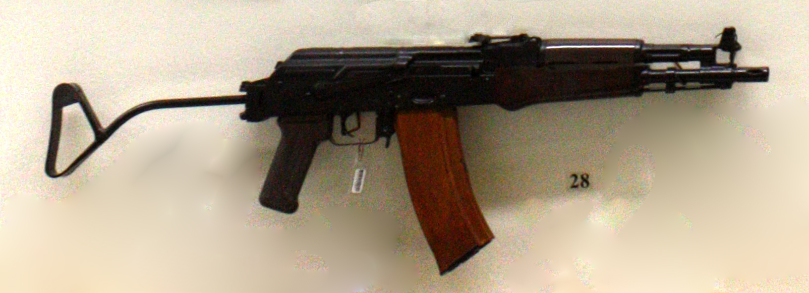 MPi-AKS 74NK, German Tank Museum Munster.